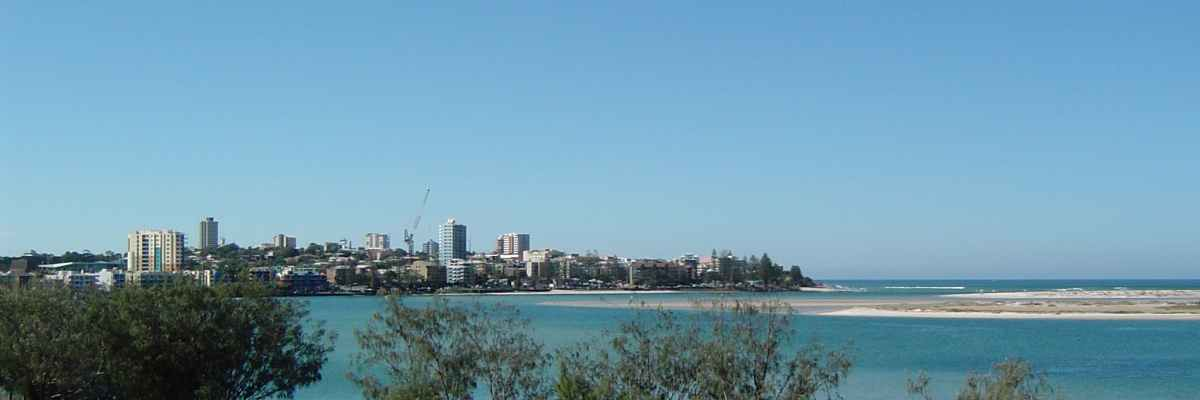 Caloundra headland from Golden Beach. Date unknown. Summary Caloundra headland from Golden Beach. Date unknown.